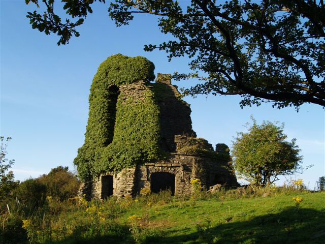 Ivy Tower near Tonna